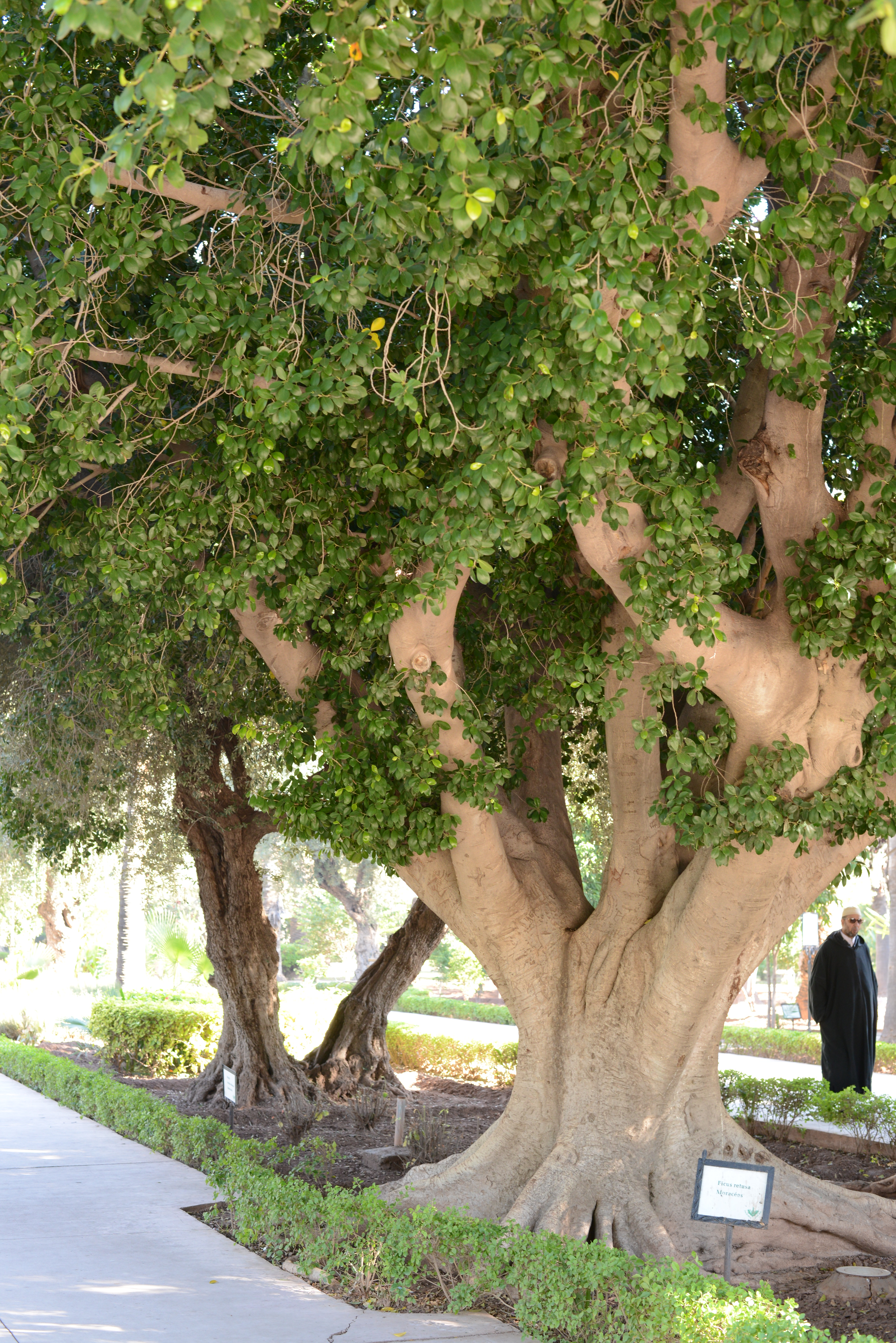 Ficus retusa. Parc El Harti, Marrakech (Morocco)